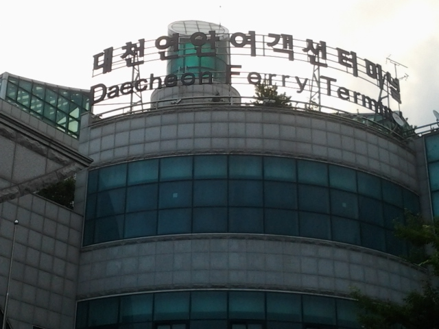 this is Deacheon port